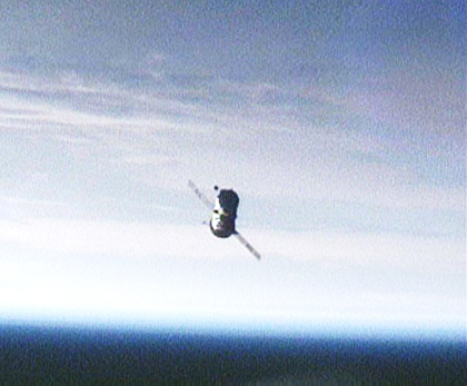 The ISS Progress 36 cargo ship is seen shortly after undocking from the International Space Station.